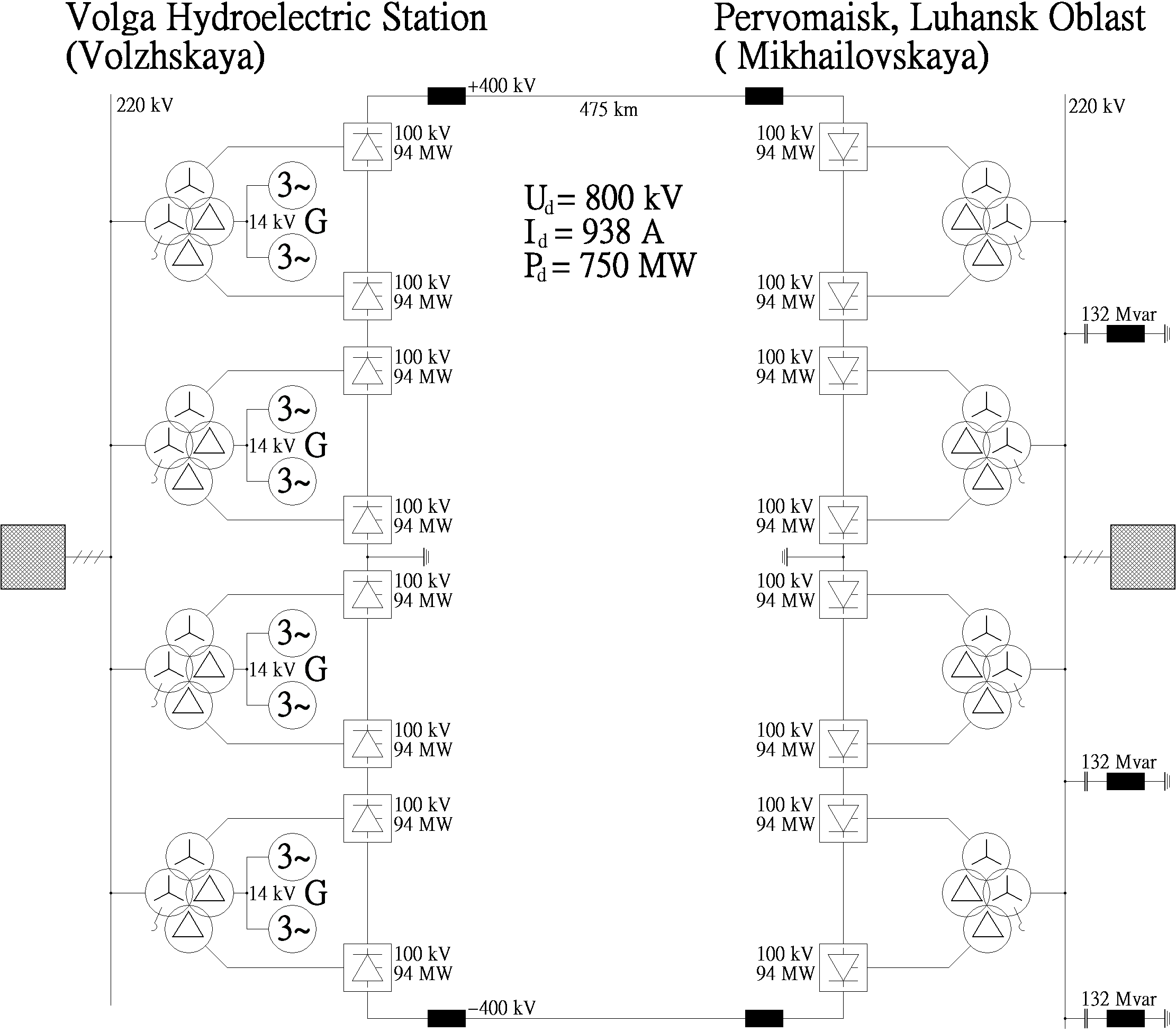 Single line diagram of HVDC Volgograd-Donbass, drawn with Paint.